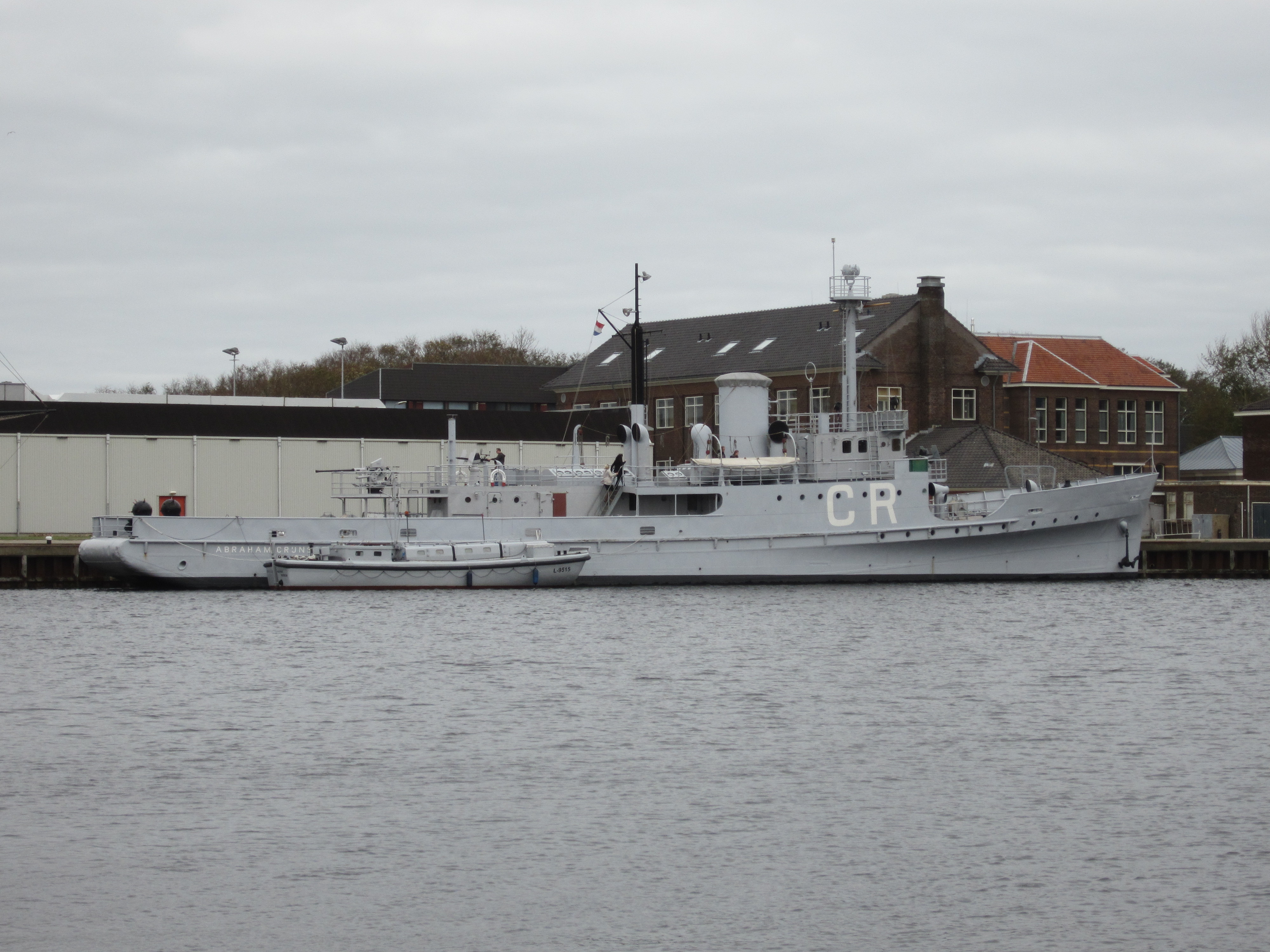 Starboard view of the former HNLMS Abraham Crijnssen at the Dutch Navy Museum in Den Helder